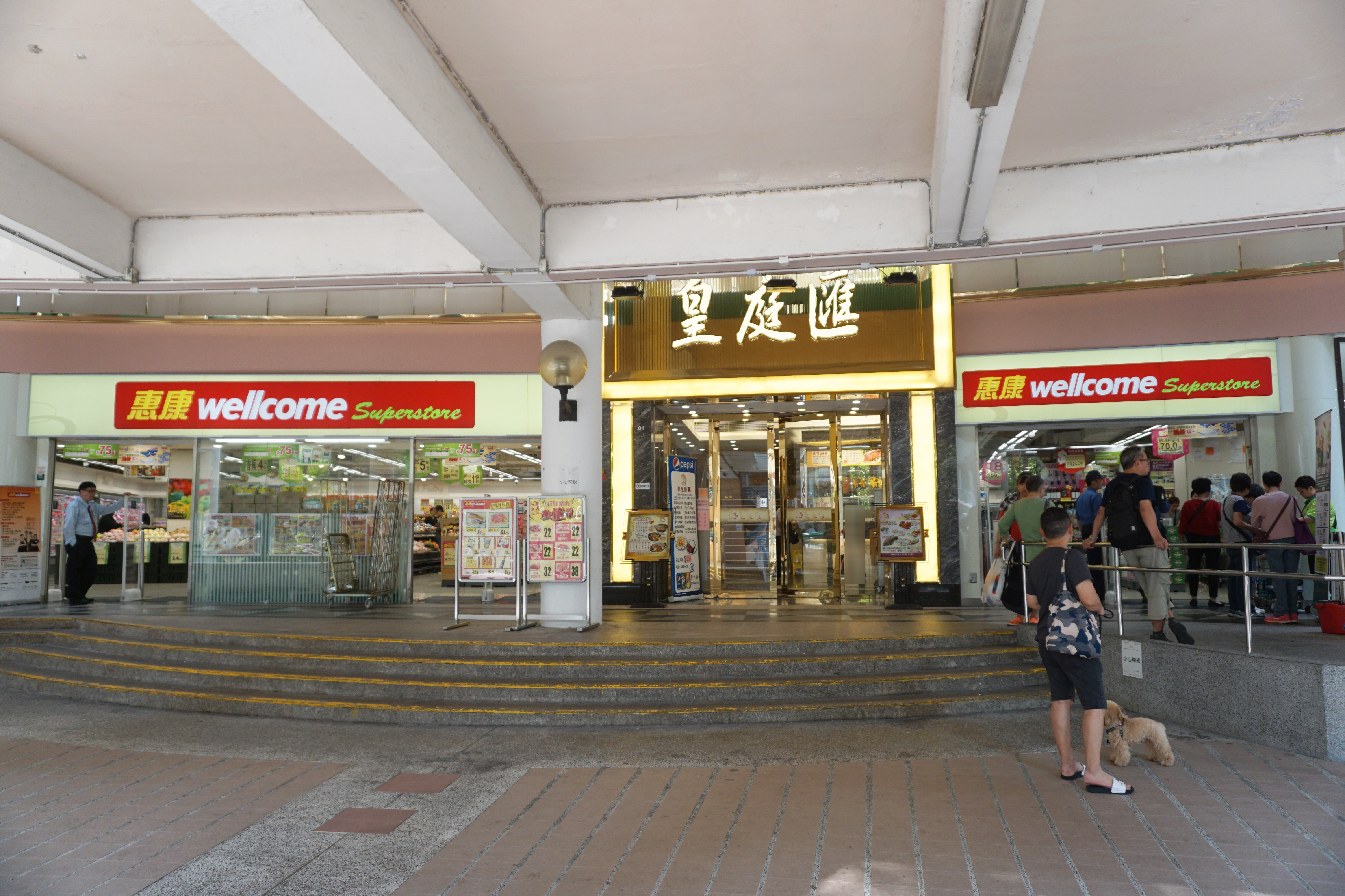 Tsui Ping North Shopping Circuit in Kwun Tong, Hong Kong.